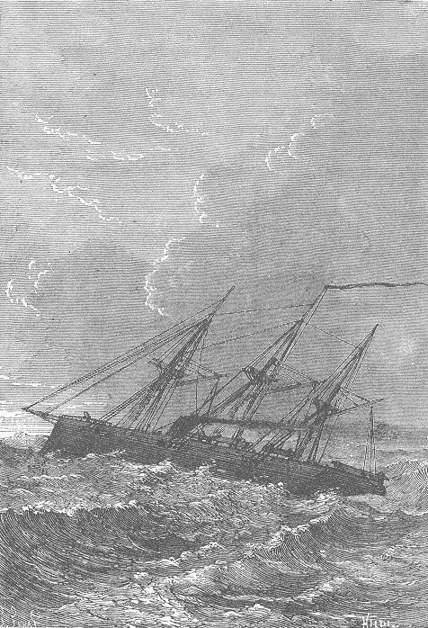 Ilustration of Jules Férata to novel J. Verne "The Blockade Runners"